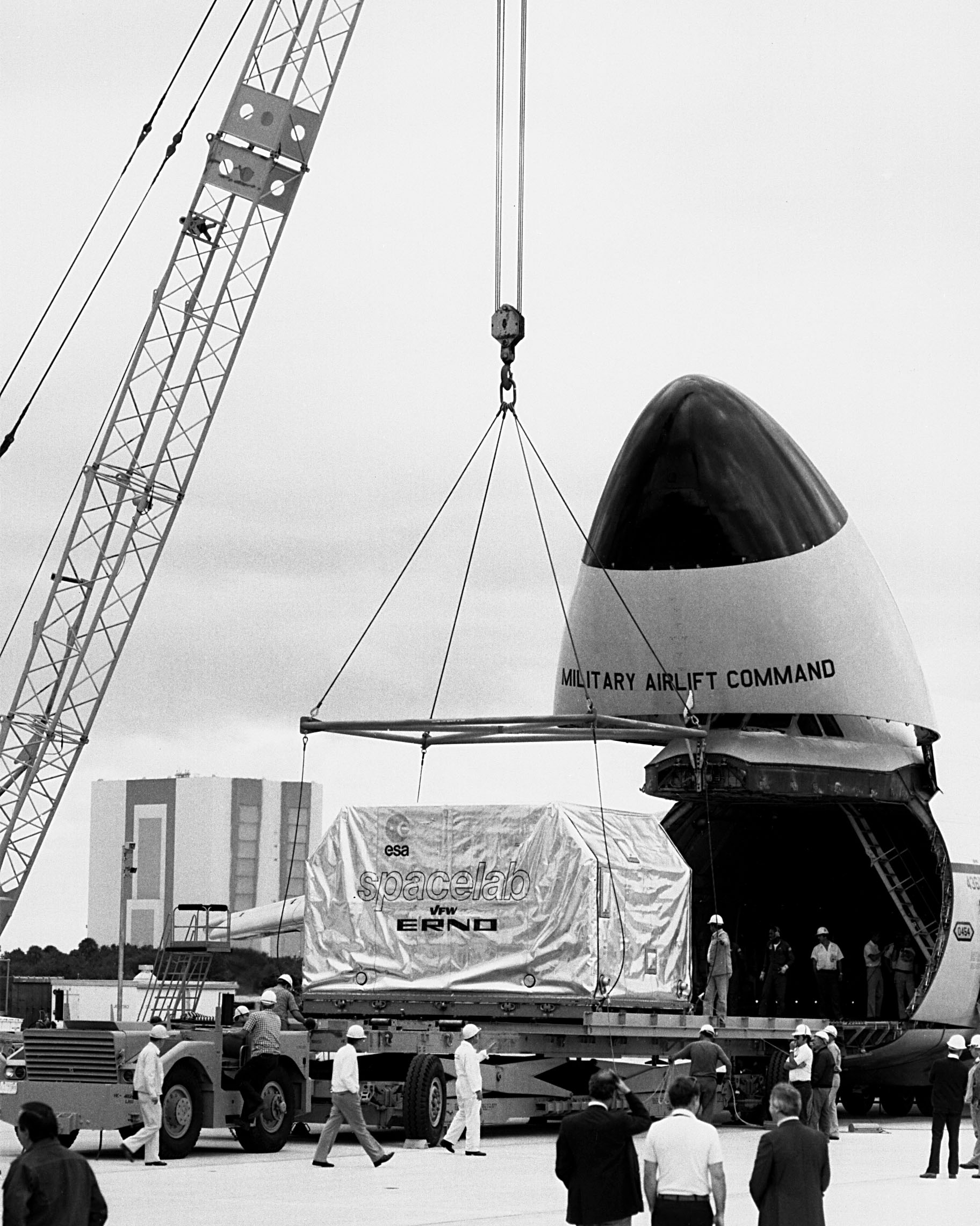 Spacelab engineering model components unloaded from Lockheed C-5 Galaxy aircraft